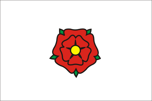 Bandera de Reus 2004, per J. Ollé This image was moved to Commons by User:Iradigalesc (here: Iradigalesc) with the tool CommonismNow. File:Flag of Reus (Tarragona).svg is a vector version of this file. It should be used in place of this raster image when not inferior. File:Ct reus-wiki.png File:Flag of Reus (Tarragona).svg For more information, see Help:SVG.